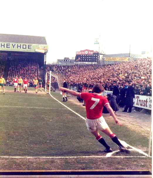 River End, carrow Road, Norwich City Football Club Steve Coppell taking a corner for Manchester United at Norwich.